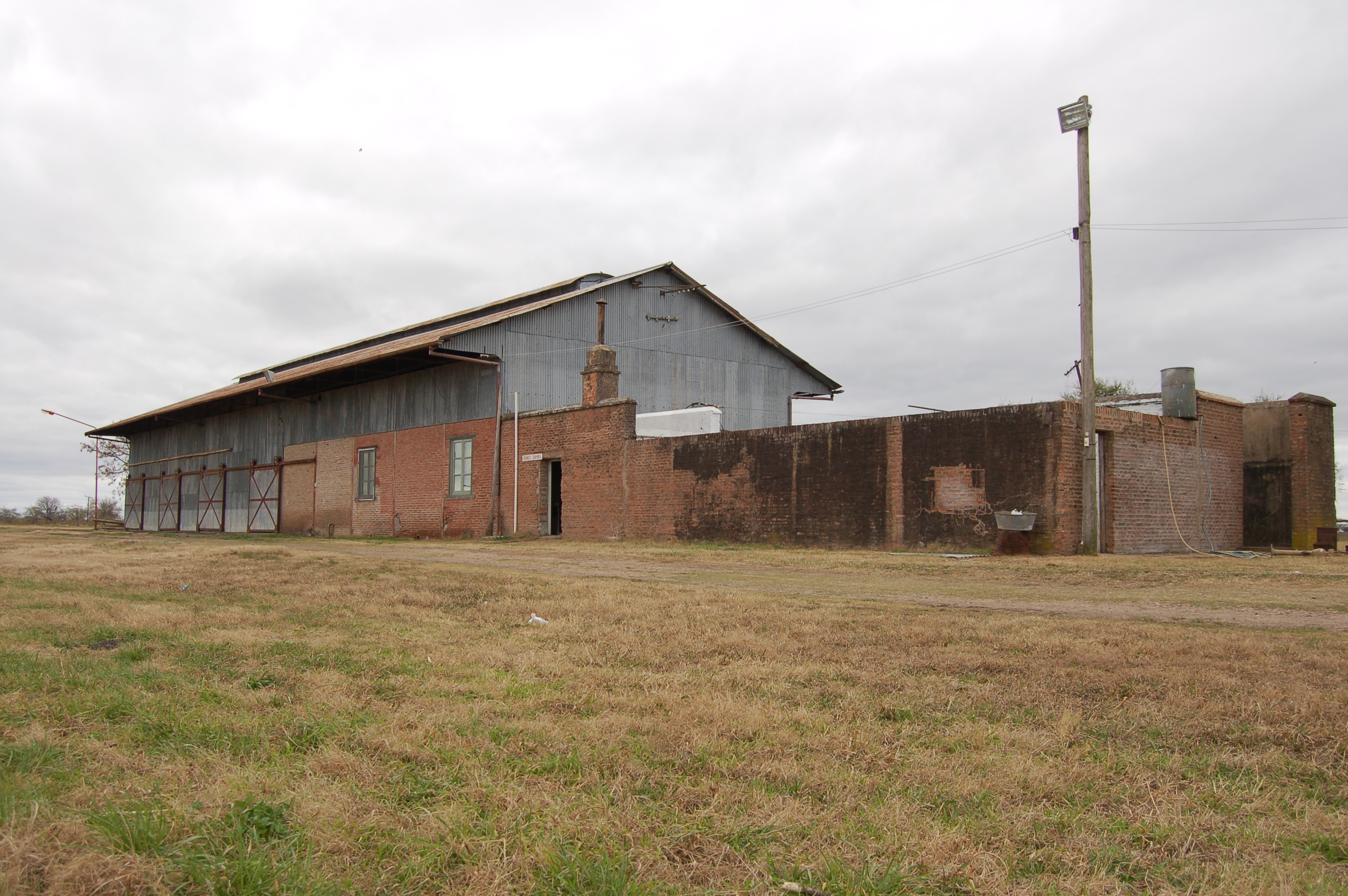 Estacion ferroviaria de Primero de Mayo